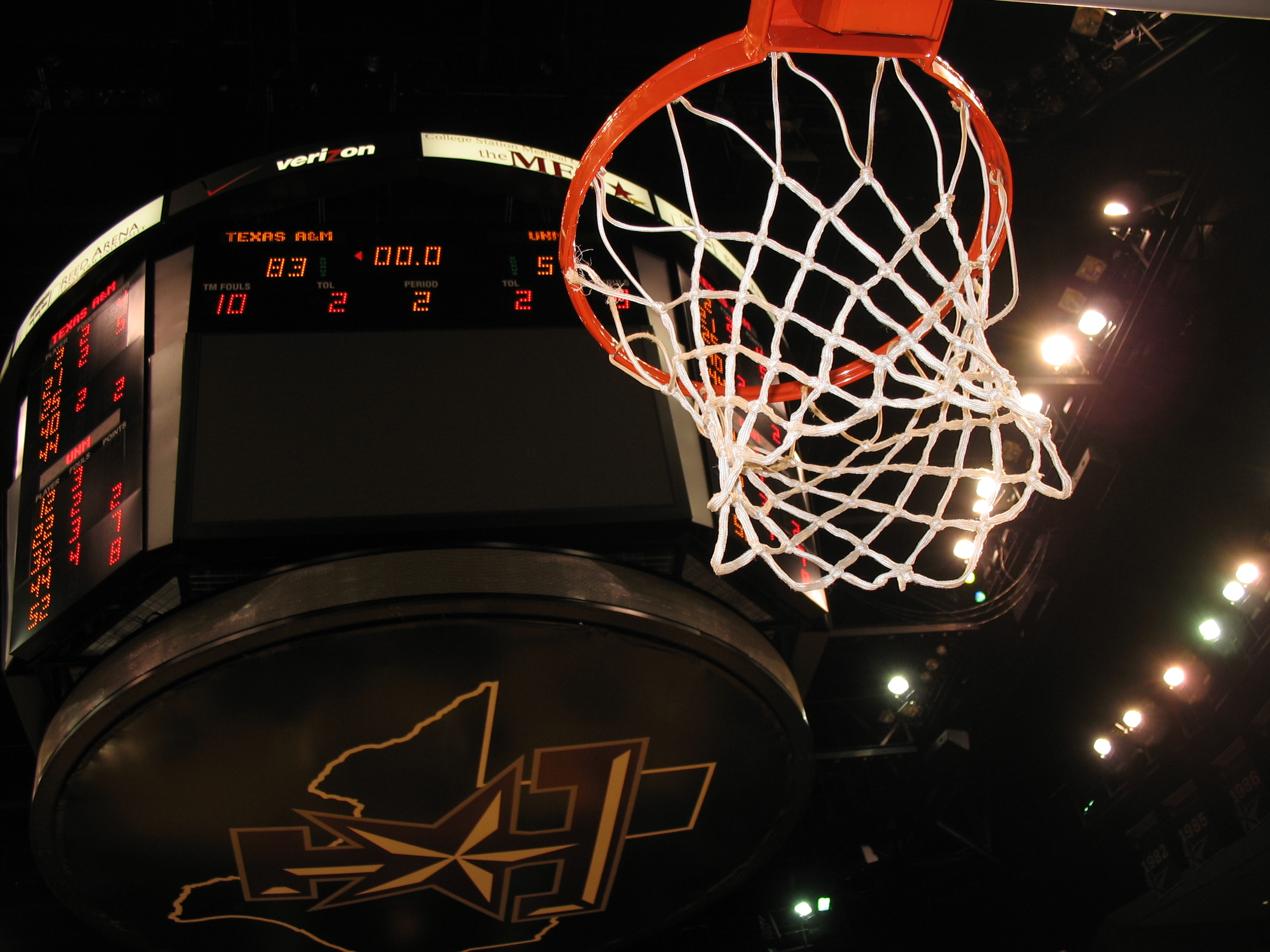 Scoreboard at Texas A&M's Reed Arena, shown after the women's basketball game against New Mexico.